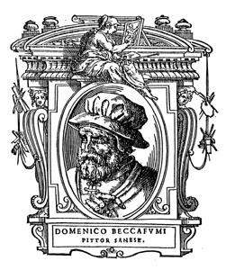 Illustratio from "Le Vite" by Giorgio Vasari, edition of 1568. For the artist portrayed see filename